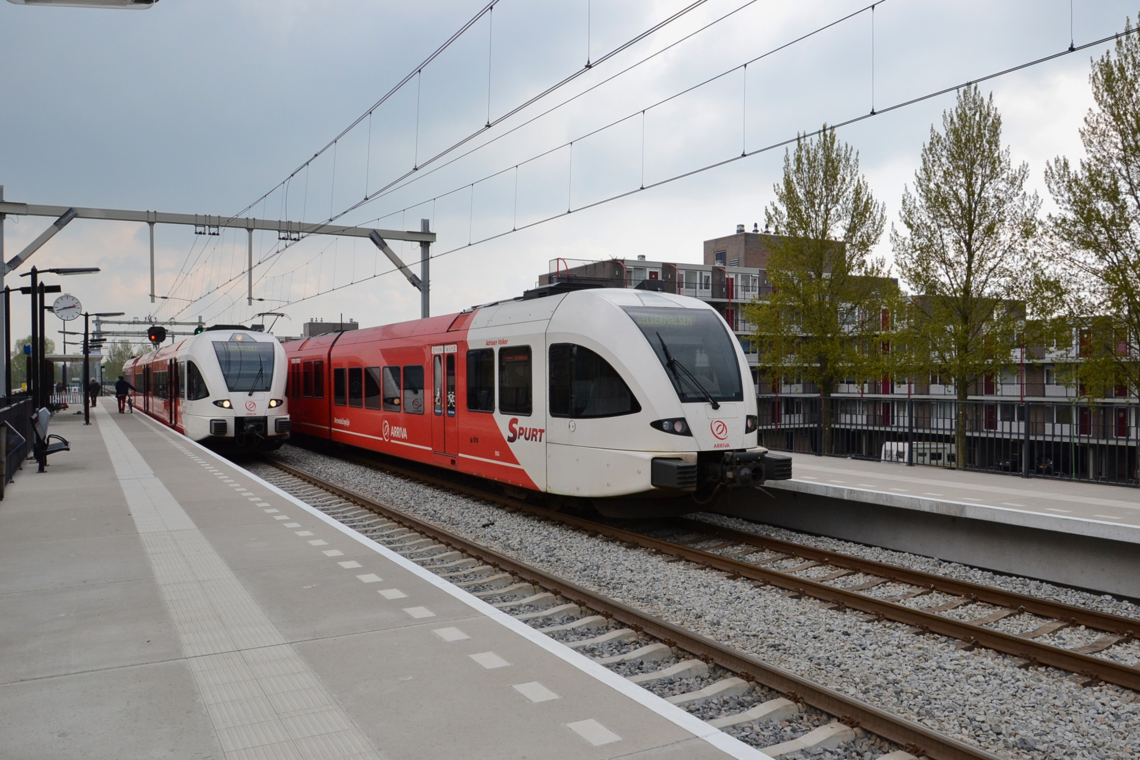 Railway Station Dordrecht Stadspolders, MerwedeLingelijn, Netherlands. Two Spurts arriving.